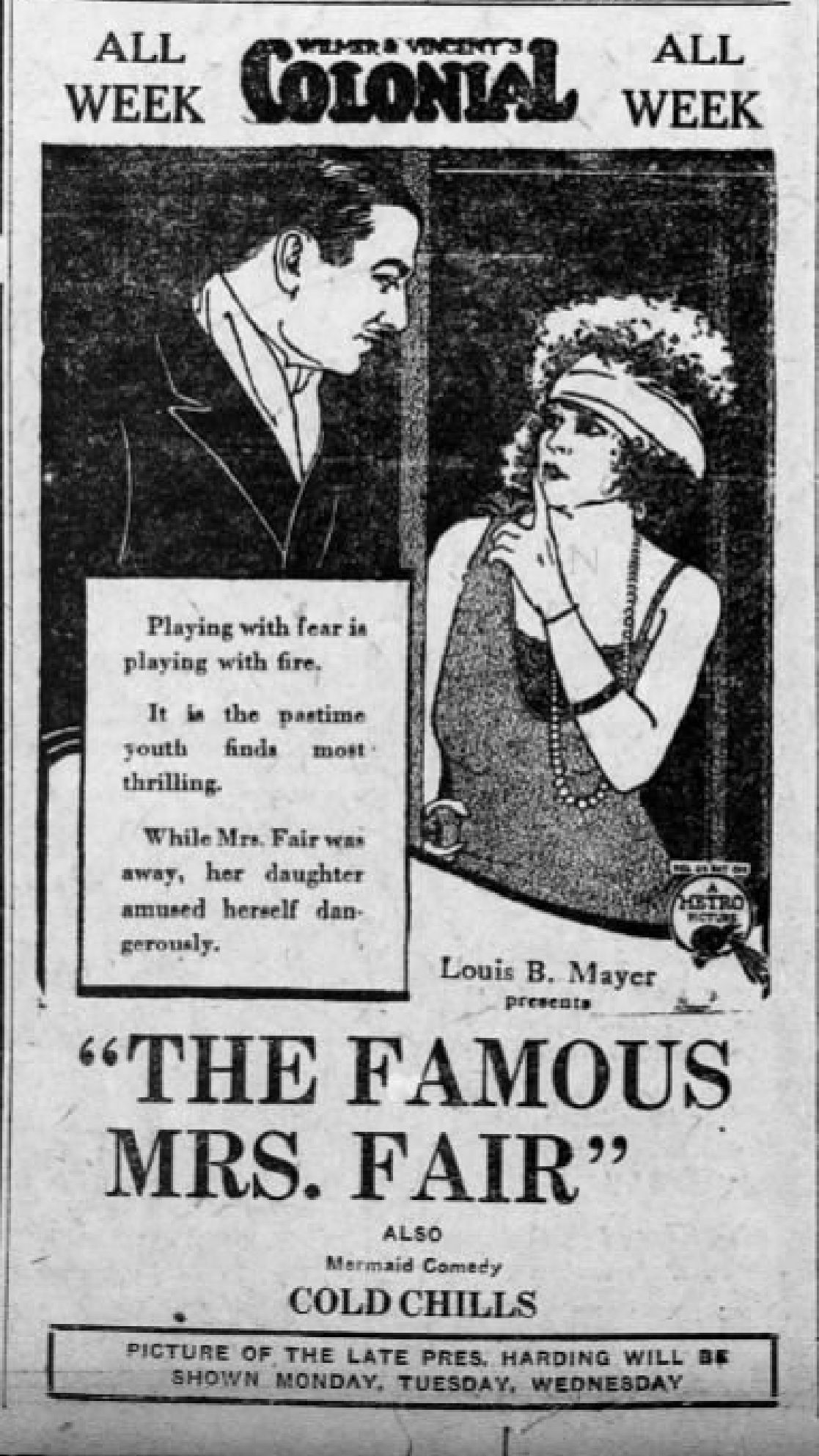 Colonial Theater advertisement for the American drama film The Famous Mrs. Fair (1923) - 5 Aug. 1923 Morning Call, Allentown PA